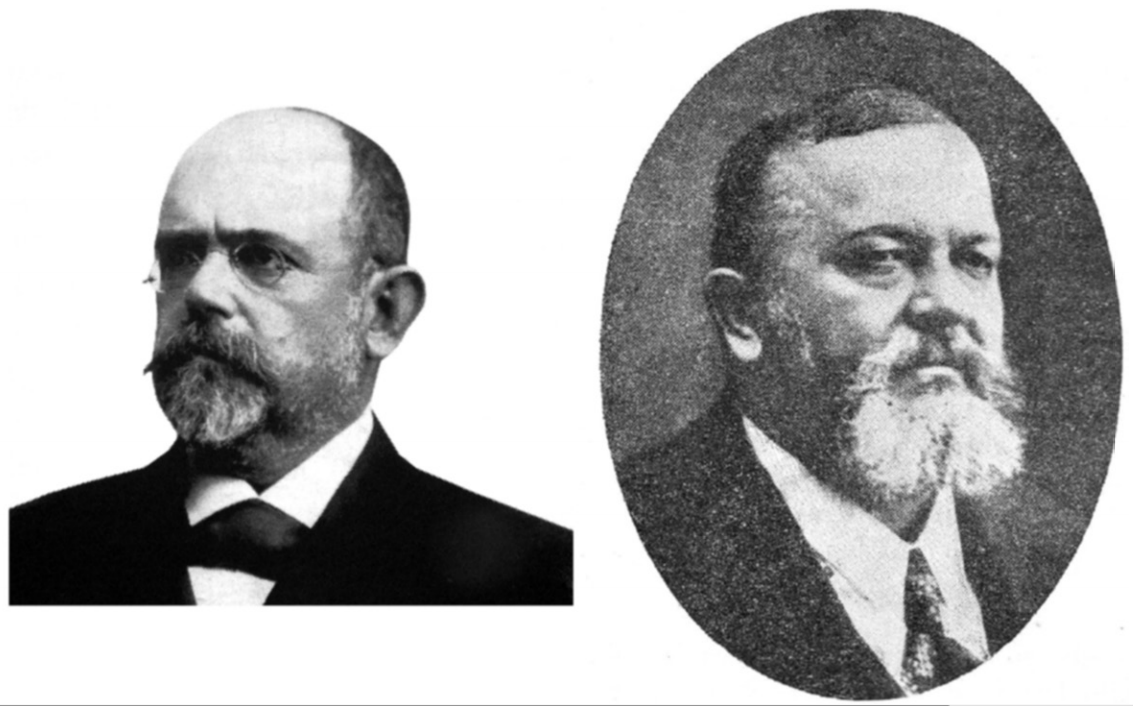 Image of Francisco Pascasio Moreno (left) and Alcides Mercerat (right). Since both of these people died before 1923, the copyright has certainly expired.